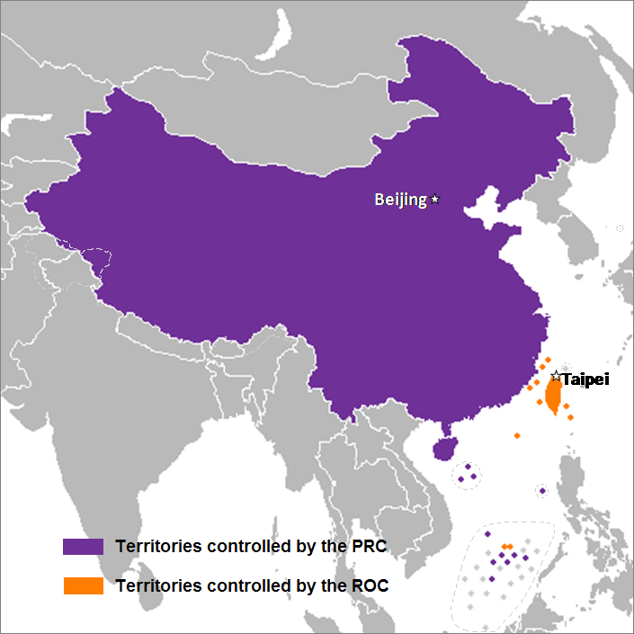 This is a map of the two states that officially use the name "China" in their names and depicts the actual "line of control" and not any claims that states often make. Key words: actual administration and actual maintaining of control of the territories. Avec nat | Wikipédia Prends Des Forces. 03:09, 19 November 2007 (UTC)